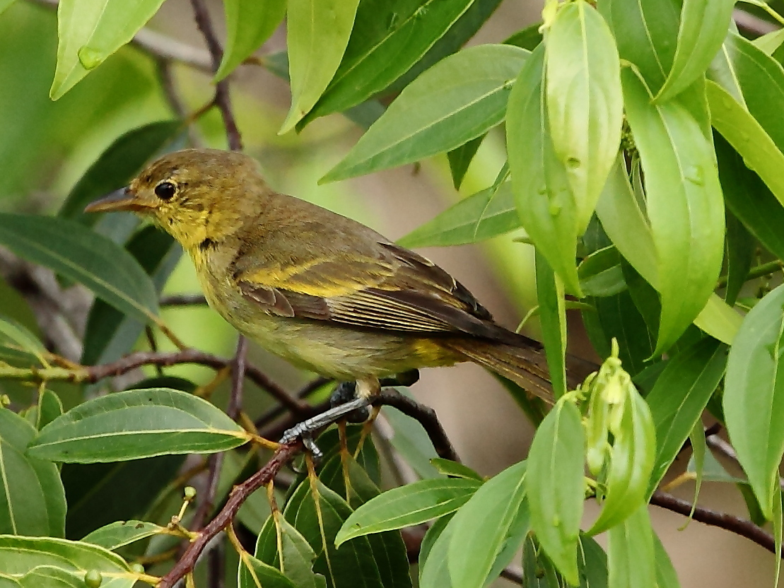 Yellow-backed Tanager (female) at Manaus - AM - Brazil